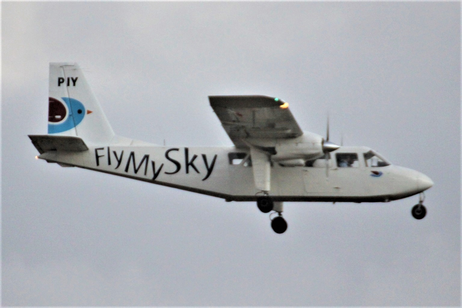 At Auckland